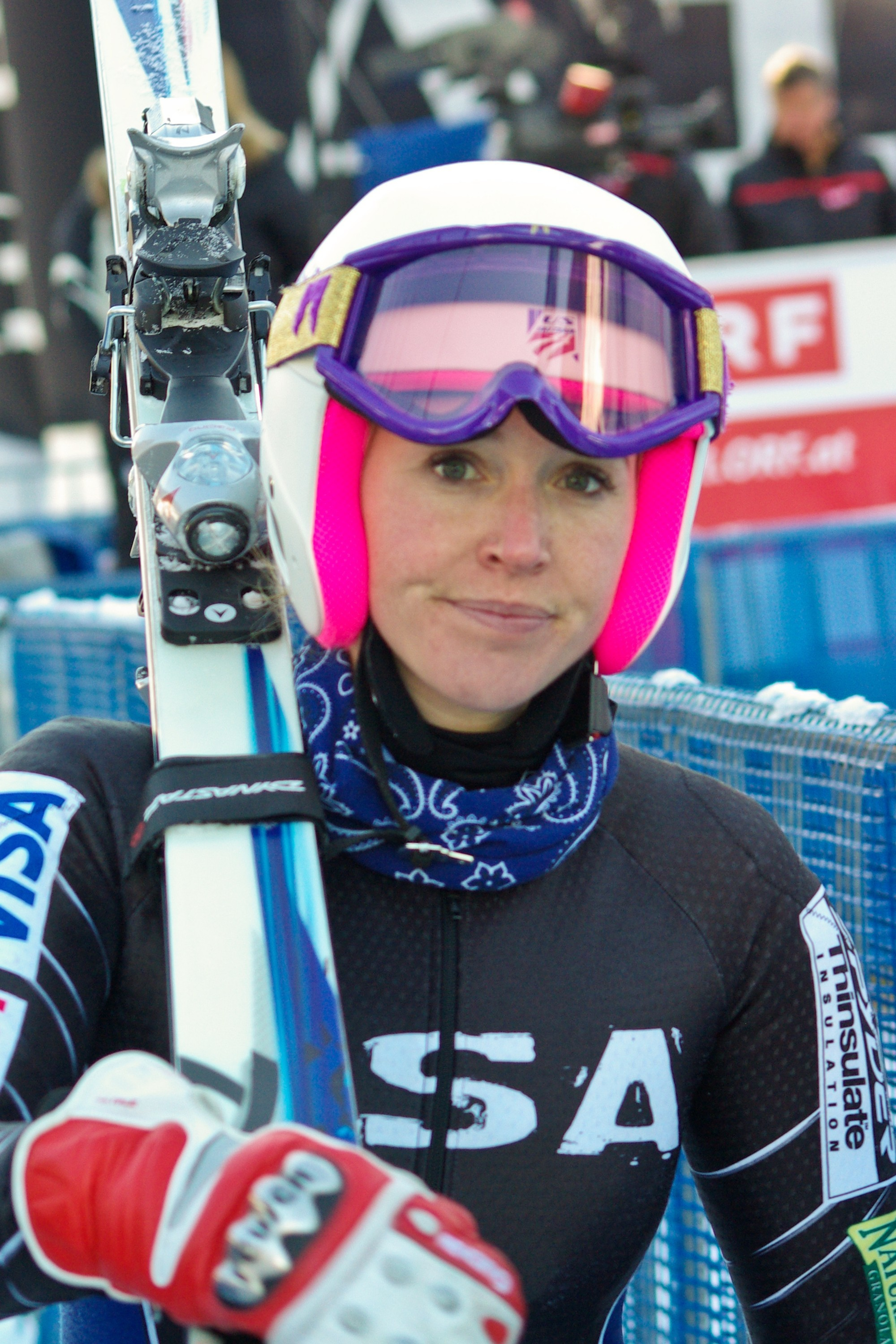 American alpine skier Caroline Lalive after the second downhill training in Altenmarkt-Zauchensee (Austria) on 16 January 2009.